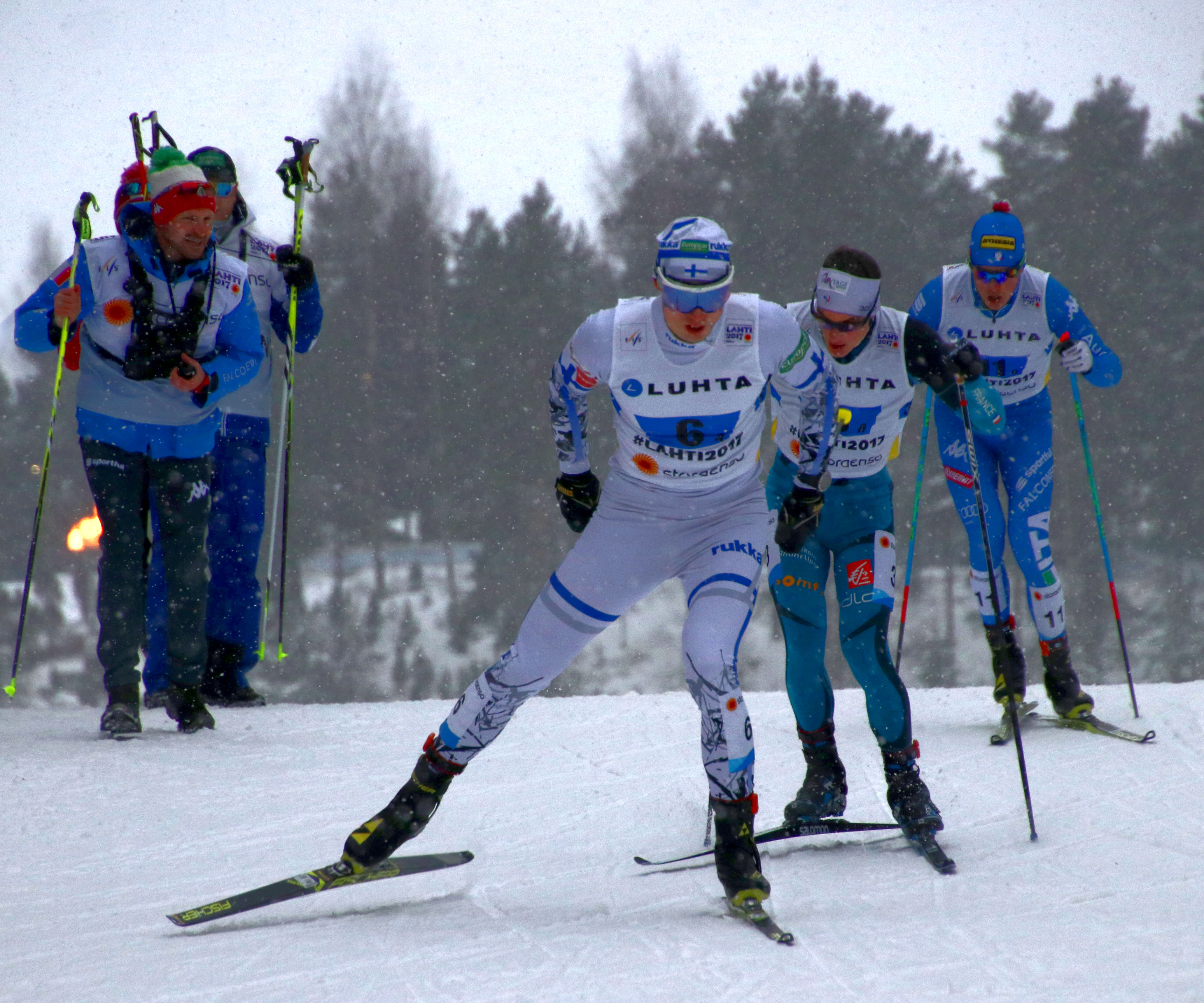 Lahti. At the Nordic Combined World Championships.